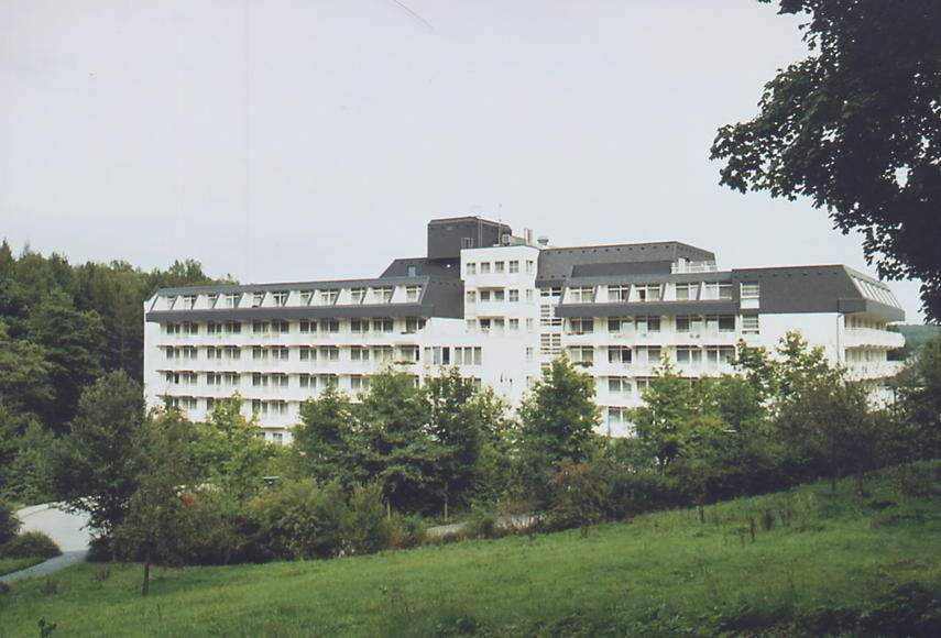 This image shows the new MEDIAN-spa-clinic in Berggießhübel in Saxony, Germany.